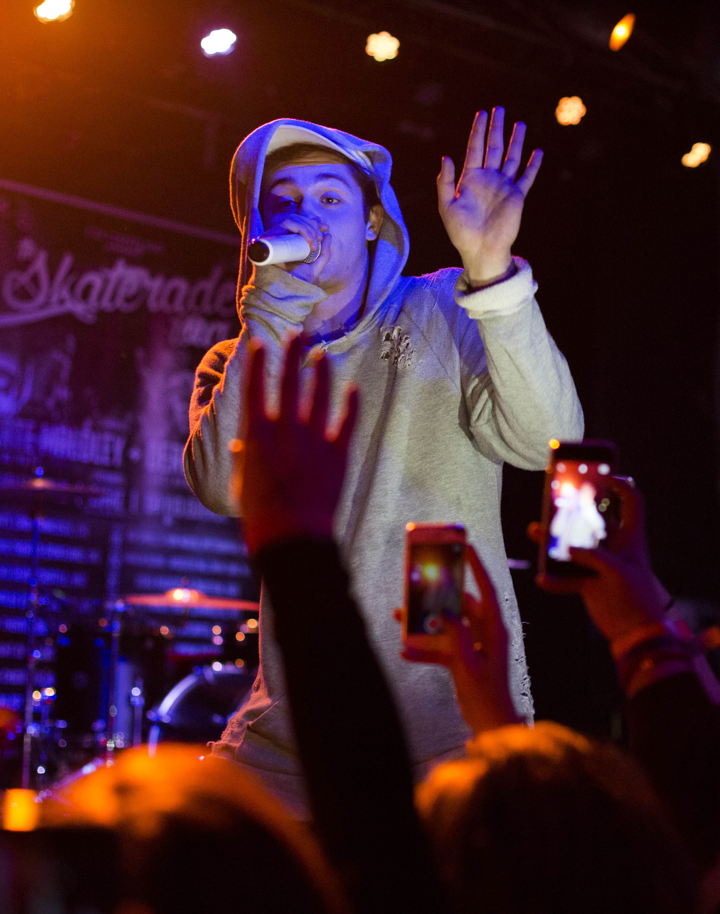 Skate at the Skaterade Tour in 2016